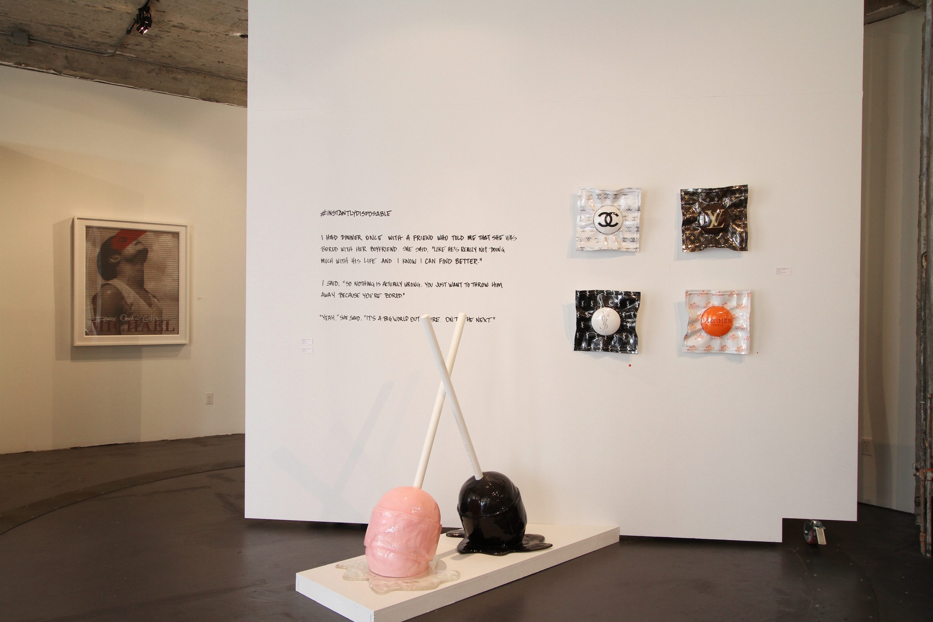 McLoughlin Gallery Photo